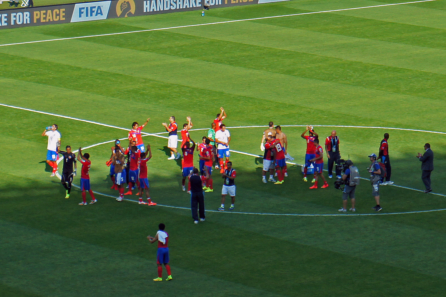 Costa Rican players celebrating their classification for the round of 16 as first place of Group D at Estádio Mineirão in Belo Horizonte at the end of the Costa Rica and England match at the 2014 FIFA World Cup, Brazil.